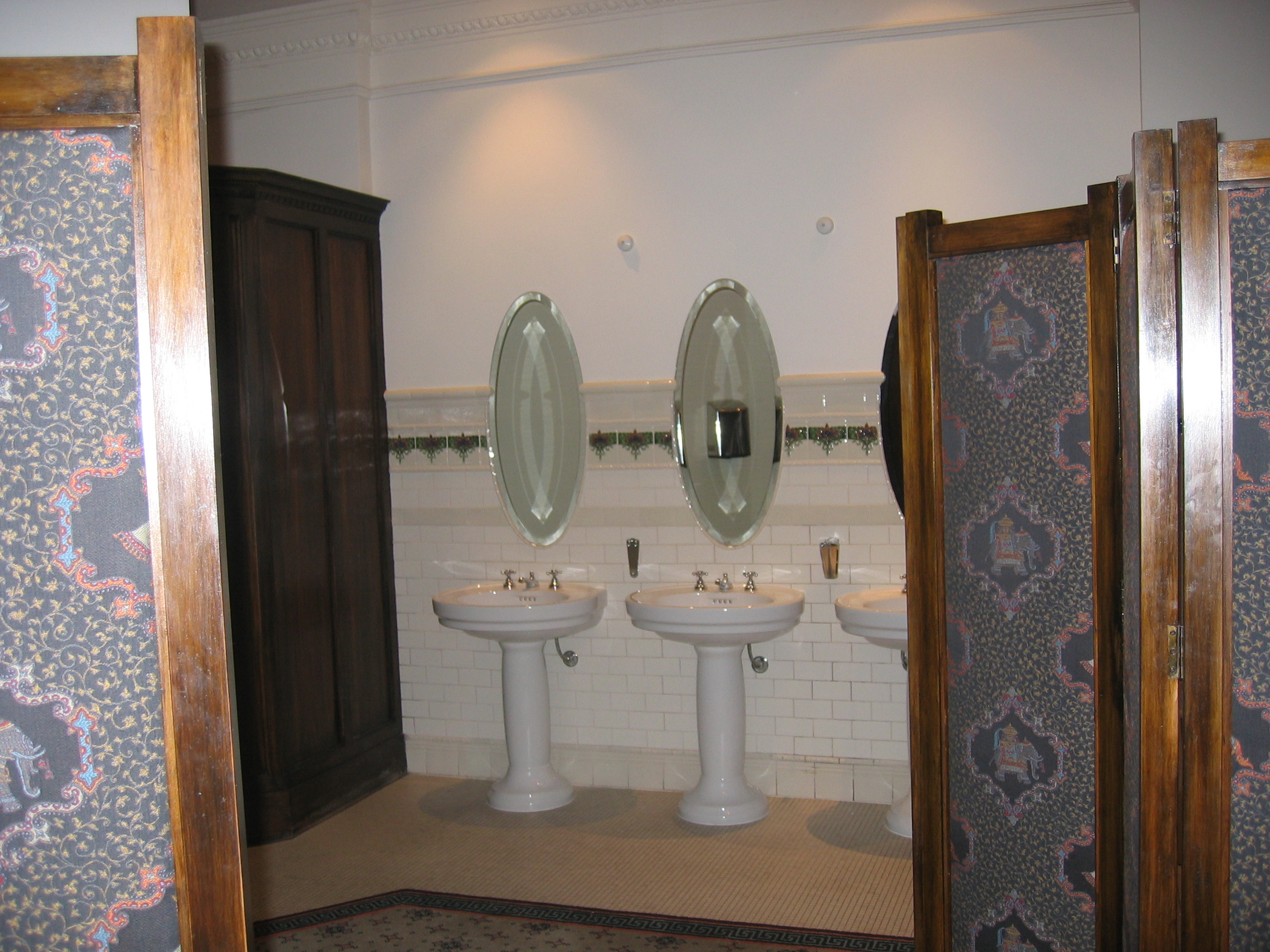 A picture of the bathrooms at the Embassy Theatre in Wellington, New Zealand